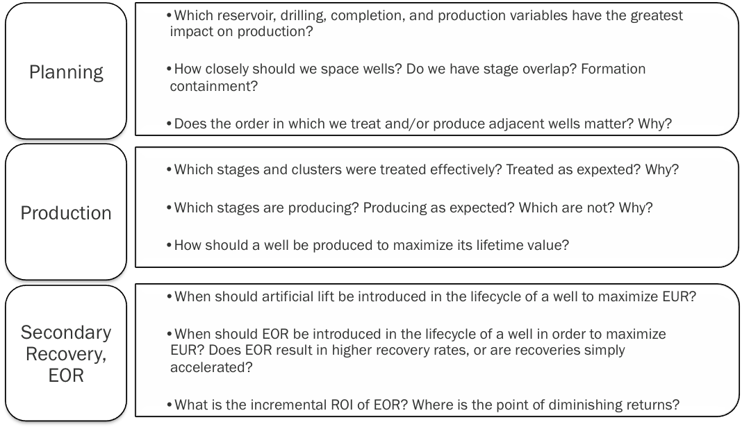 A sampling of the types of questions upstream E&P operators are answering with Prescriptive Analytics software